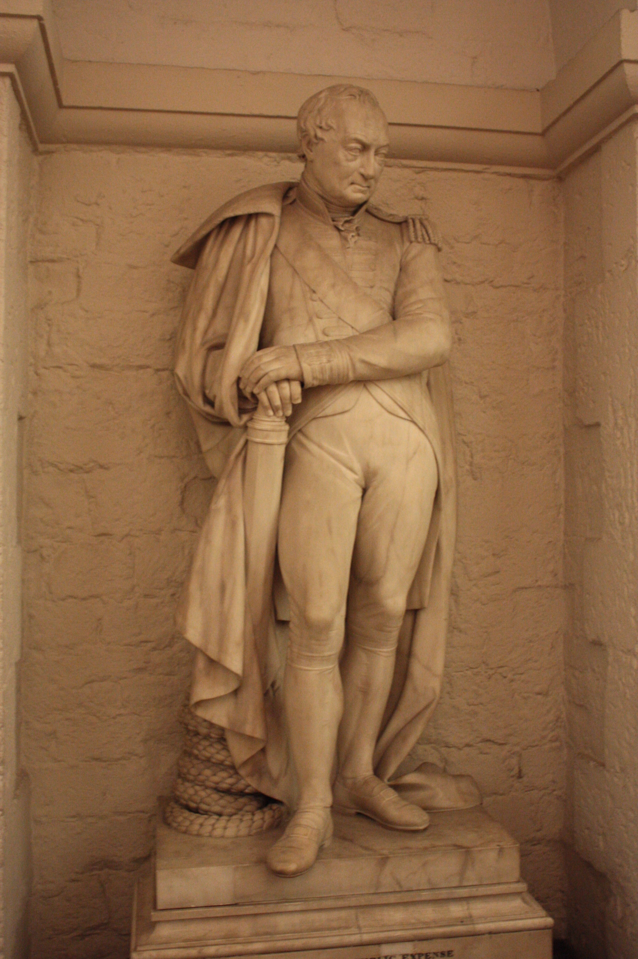 Memorial to John, Earl of St Vincent, St Pauls Cathedral